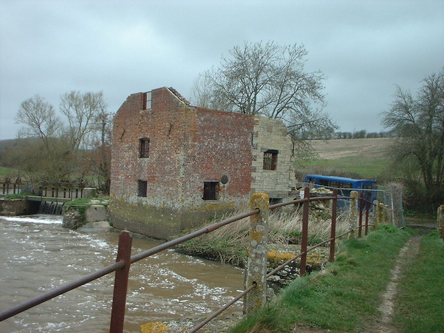 Cutt Mill This photo of Cutt Mill on the River Stour was taken after the arson attack.